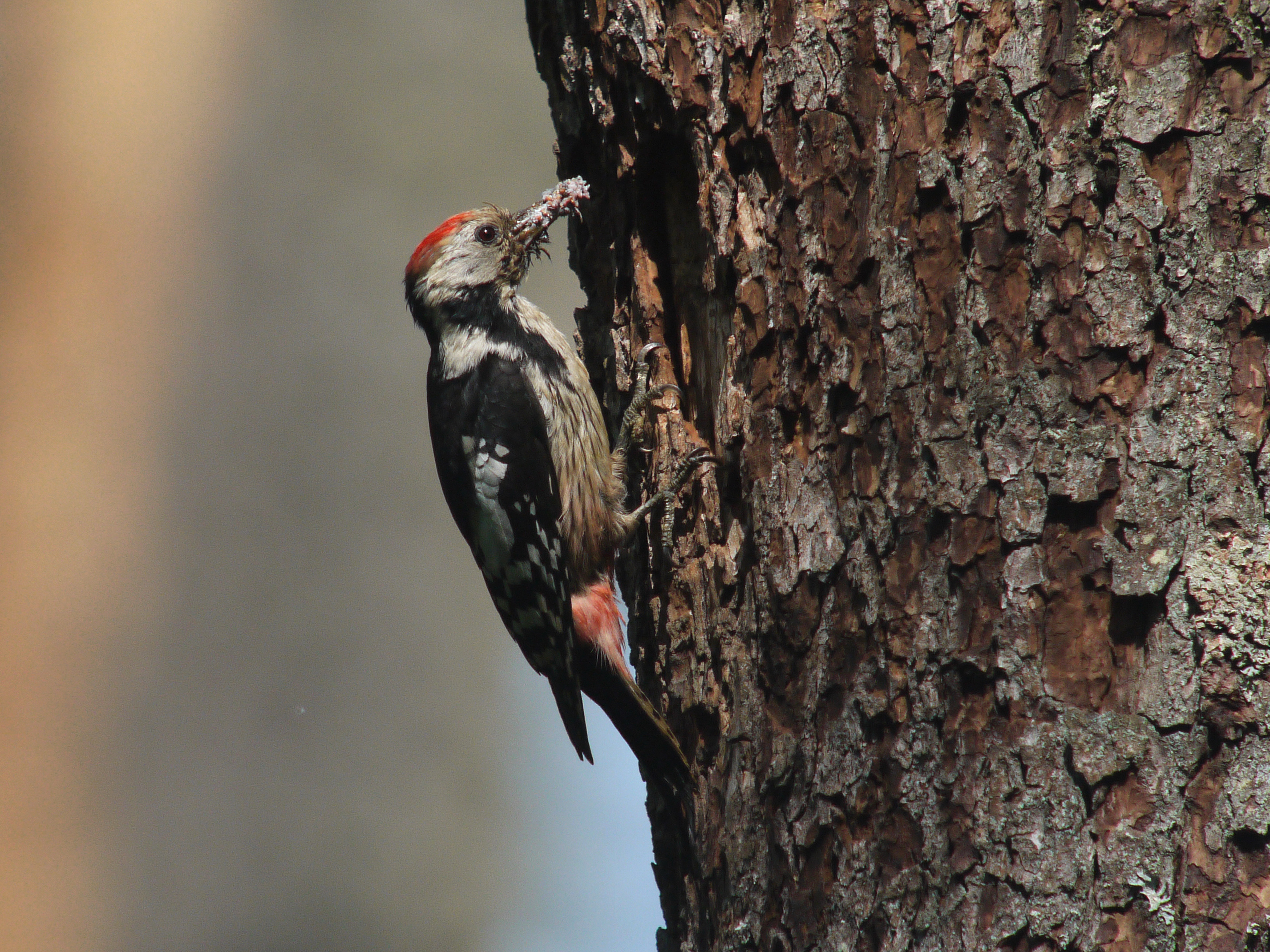 Digiscoping with Swarovski ATM 80 HD 30 X, Panasonic DMC-GF1 + Lumix G 20mm F1.7 ASPH (Adapter DCB)